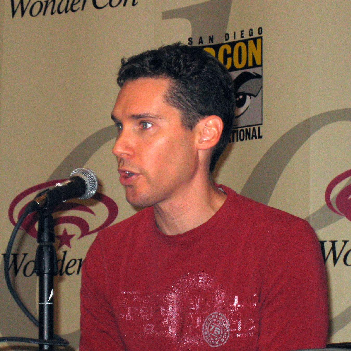 Bryan Singer at WonderCon 2006.